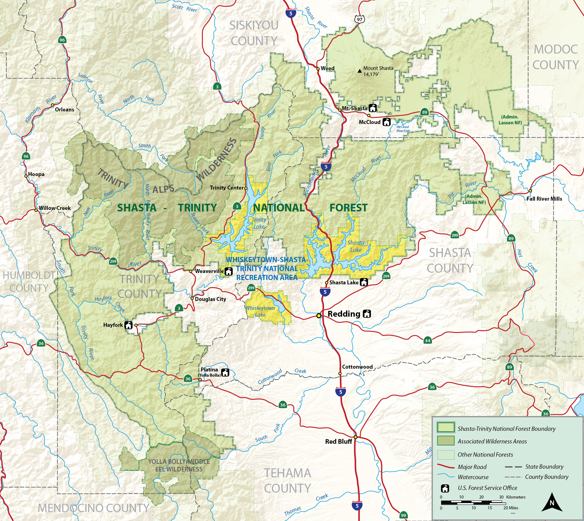 Map of the Shasta-Trinity National Forest in Northern California, including the Whiskeytown-Shasta-Trinity National Recreation Area (in yellow). Shaded relief and boundary data from USGS National Map (Public domain).